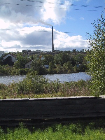 Flin Flon, Manitoba, Canada, the city built on rock. This image shows the stack at the HBM&S smelter, one of the lakes in the town, and an above-ground utilidor for fresh water and sewer. The stack belongs to the Hudson Bay Mining and Smelting Co (Hudbay Minerals).